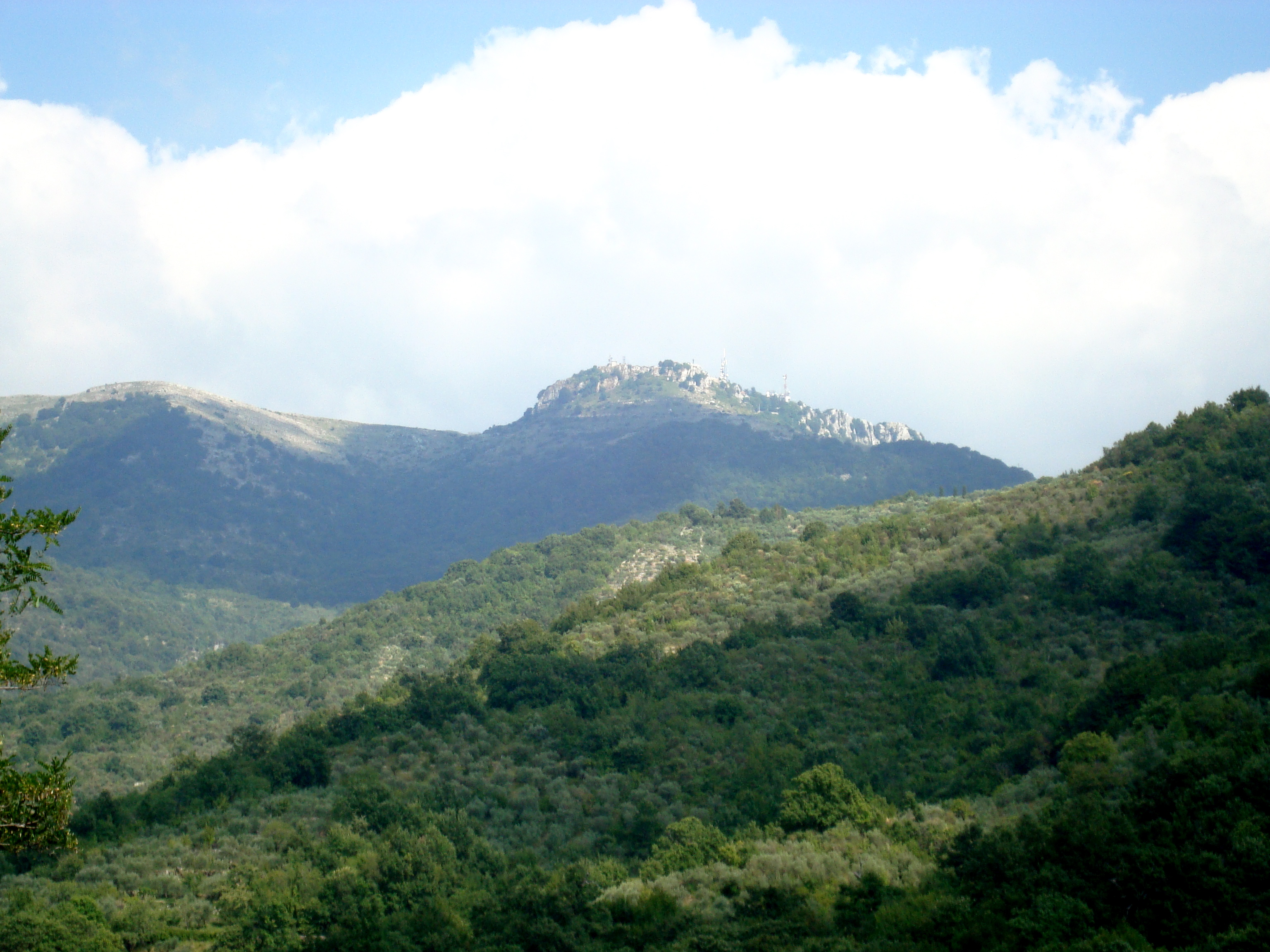 View of the Monte Guadagnolo (1218 m) from San Gregorio da Sassola.